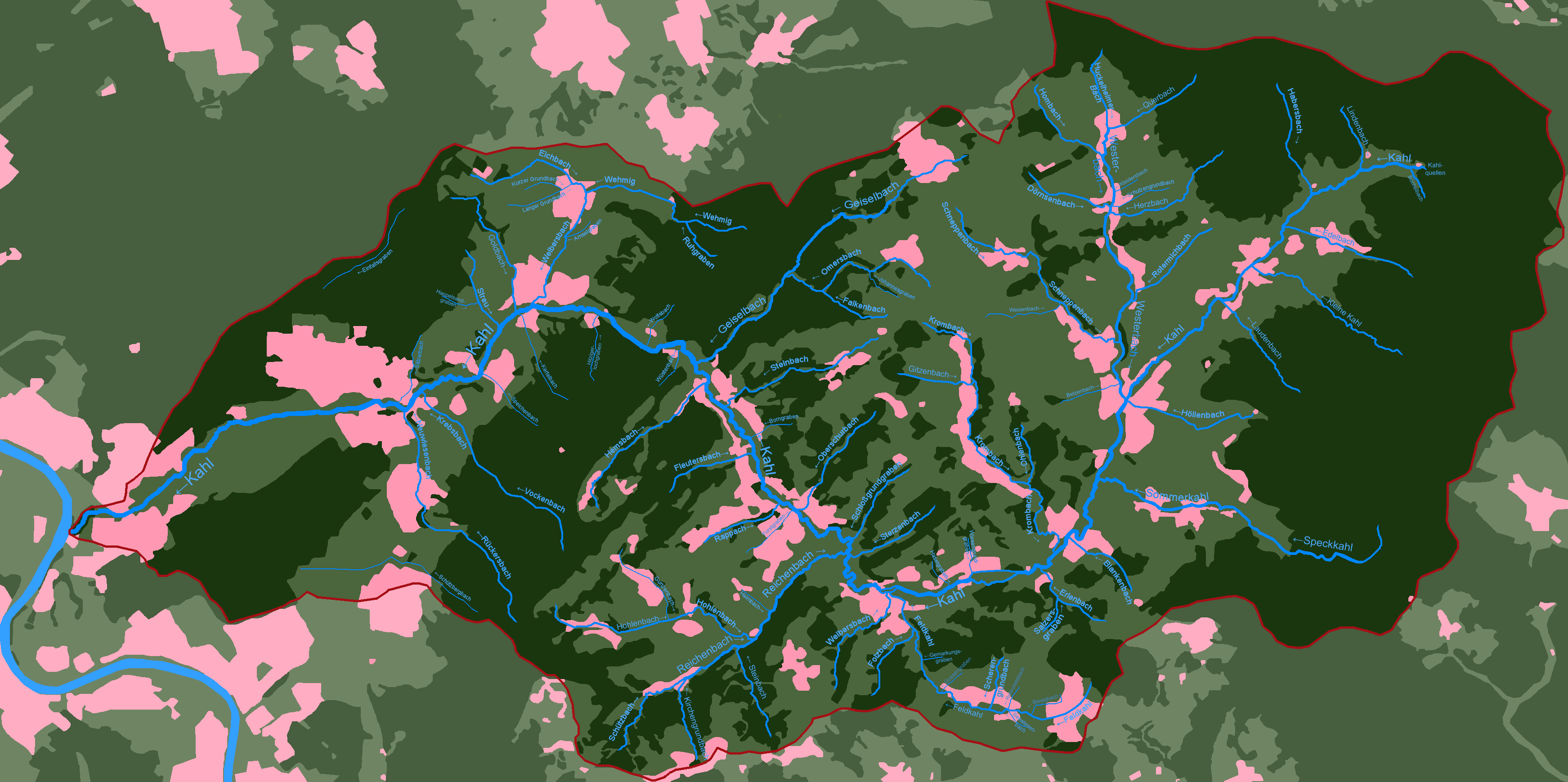 Streams in the drainage system of the Kahl: the file shows stream in the drainage system of Kahl which are listed in the "List of streams in the drainage system of Kahl" in the German Wikipedia. For questions and suggestions please contact the author. Grassland, Meadow Settlement area Drainage basin Forest Body of water